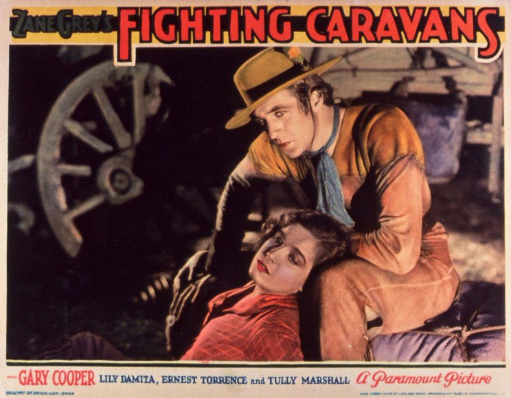 Poster for the 1931 film Fighting Caravans. Searches were done in both film and artwork for renewals in the years 1958 and 1959. There were no renewals for the title in motion pictures and no renewals for Paramount in the artwork category for both years. There's no evidence of renewal for the film and material related to it.